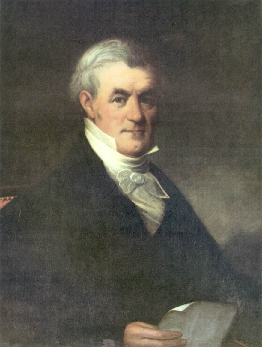 William Eustis, 11th Governor of Massachusetts, U.S. Secretary of War